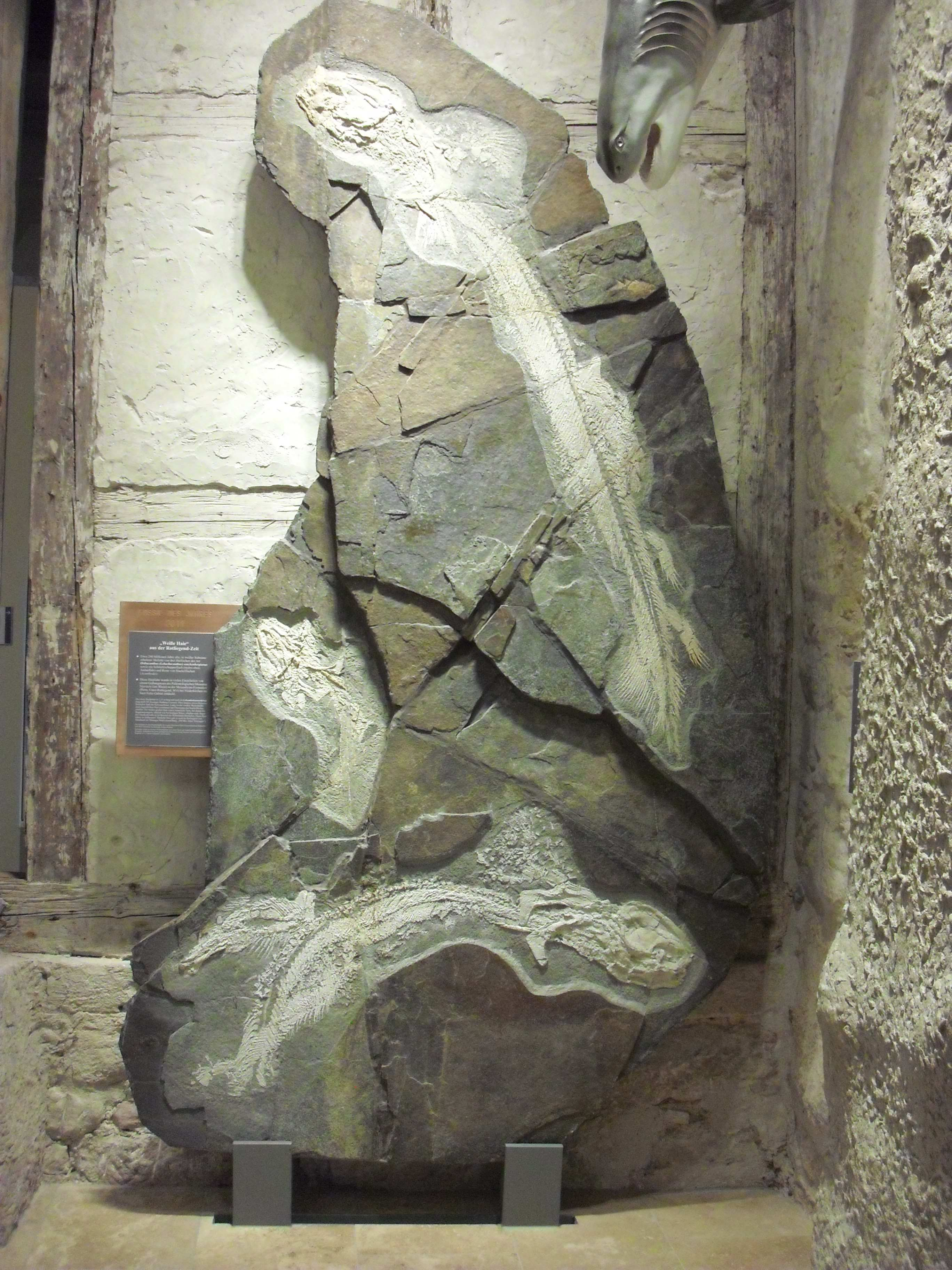 Three individuals of the xenacanthid shark Lebachacanthus colosseus from the Meisenheim Formation of the Saar-Palatine Rotliegend Basin (Lower Permian), W-Germany, on display in the Schleusingen Museum of Natural History. The specimen has been awarded as “2011 Fossil of the Year” by the German Paleontological Society (Paläontologische Gesellschaft).